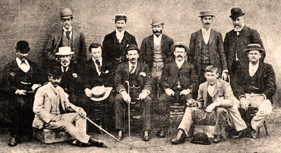 Picture of the Australian cricket team for the third Test against England at Adelaide Oval during the 1894-95 season. Back row (l to r): S Callaway, W Bruce, J Harry, F Iredale, G Searcy (umpire). Middle row: H Trott, C Turner, J Worrall, G Giffen (captain), J Darling, A Jarvis. Seated at front: S Gregory, A Trott. The image is pre-1955 and therefore is in the public domain. This image is of Australian origin and is now in the public domain because its term of copyright has expired. According to the Australian Copyright Council (ACC), ACC Information Sheet G023v17 (Duration of copyright) (August 2014). Type of materialCopyright has expired if ... A Photographs or other works published anonymously, under a pseudonym or the creator is unknown:taken or published prior to 1 January 1955 B Photographs (except A):taken prior to 1 January 1955 C Artistic works (except A & B):the creator died before 1 January 1955 D Published editions1 (except A & B):first published more than 25 years ago E Commonwealth or State government owned2 photographs and engravings:taken or published more than 50 years ago and prior to 1 May 1969 1 means the typographical arrangement and layout of a published work. eg. newsprint. 2owned means where a government is the copyright owner as well as would have owned copyright but reached some other agreement with the creator. When using this template, please provide information of where the image was first published and who created it. You must also include a United States public domain tag to indicate why this work is in the public domain in the United States.